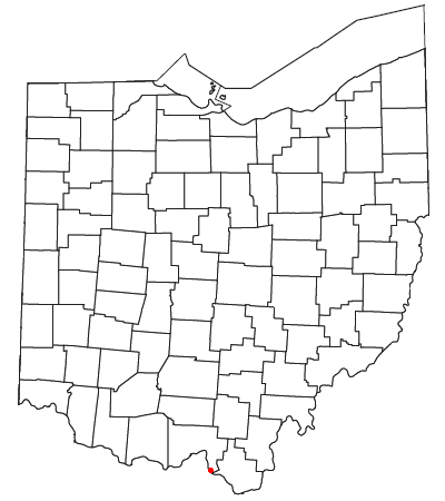 Locator map of the unincorporated community of Haverhill in Scioto County, Ohio, United States